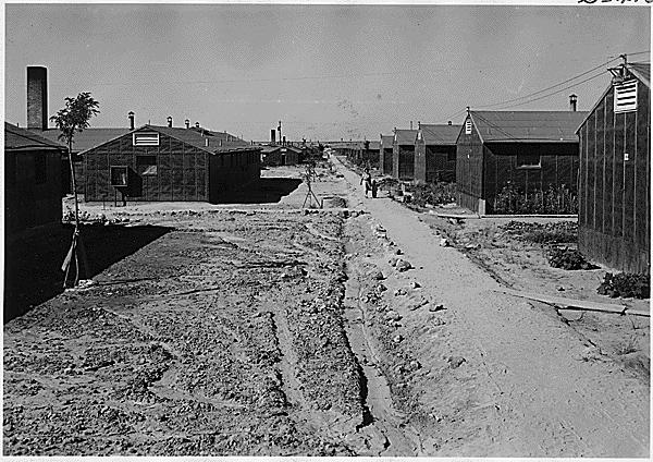 Block 44 of Minodoka Relocation Center, an internment camp for Americans of Japanese ancestry during World War II - Full caption: Minidoka Relocation Center, Hunt, Idaho. Looking down the rows of barracks westward from block 44. At extreme left is a corner of the dining hall where the 275 to 300 residents of the block eat. At center background is the sanitation building including showers, lavatories, toilets and washtubs. Nearly all the residents planted flowers and vegetable gardens in front of their barracks.